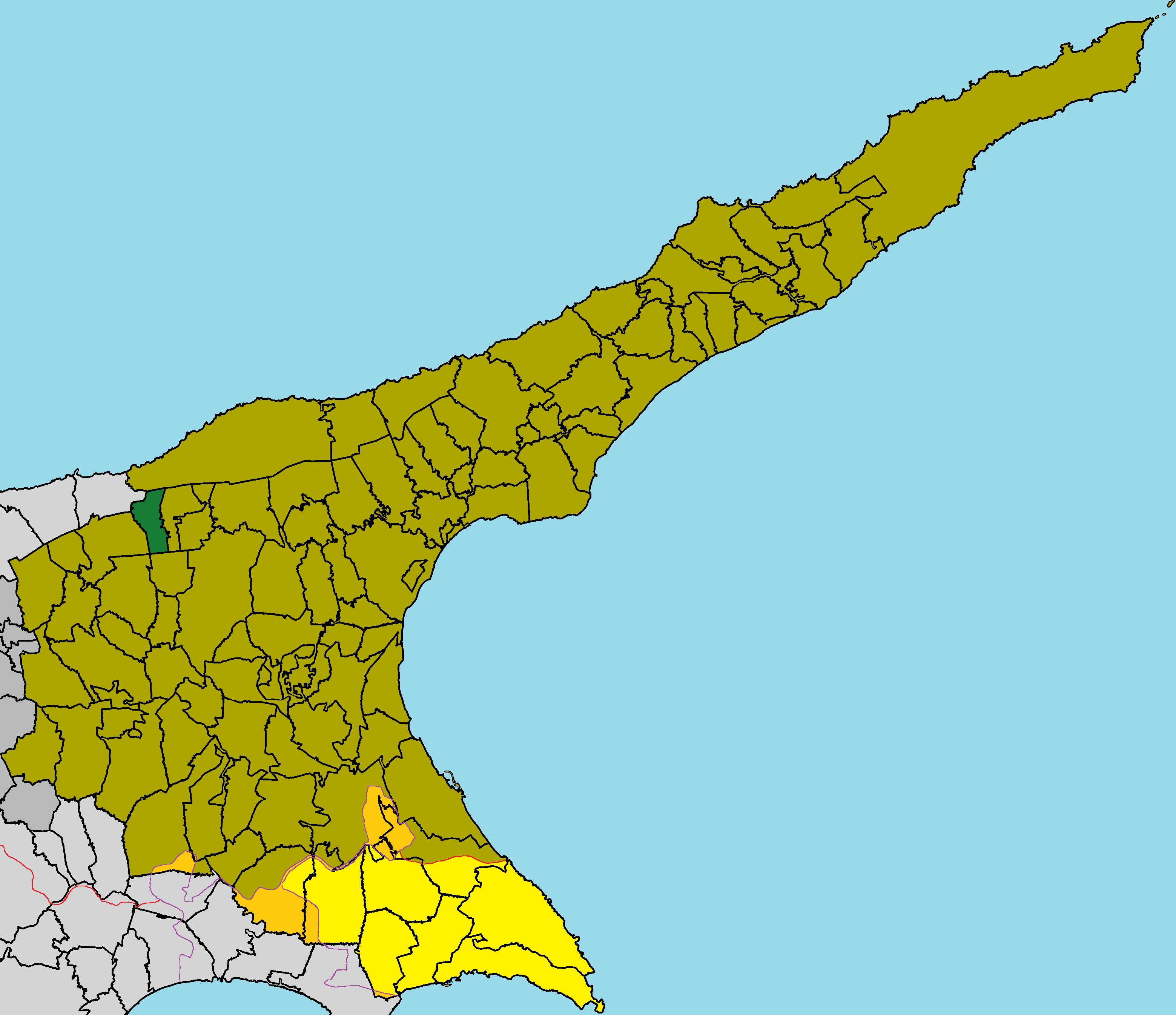 Agios Nikolaos Ammochostou in Famagusta District (de jure).